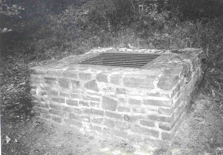 Entry for revision to the Eifel aqueduct